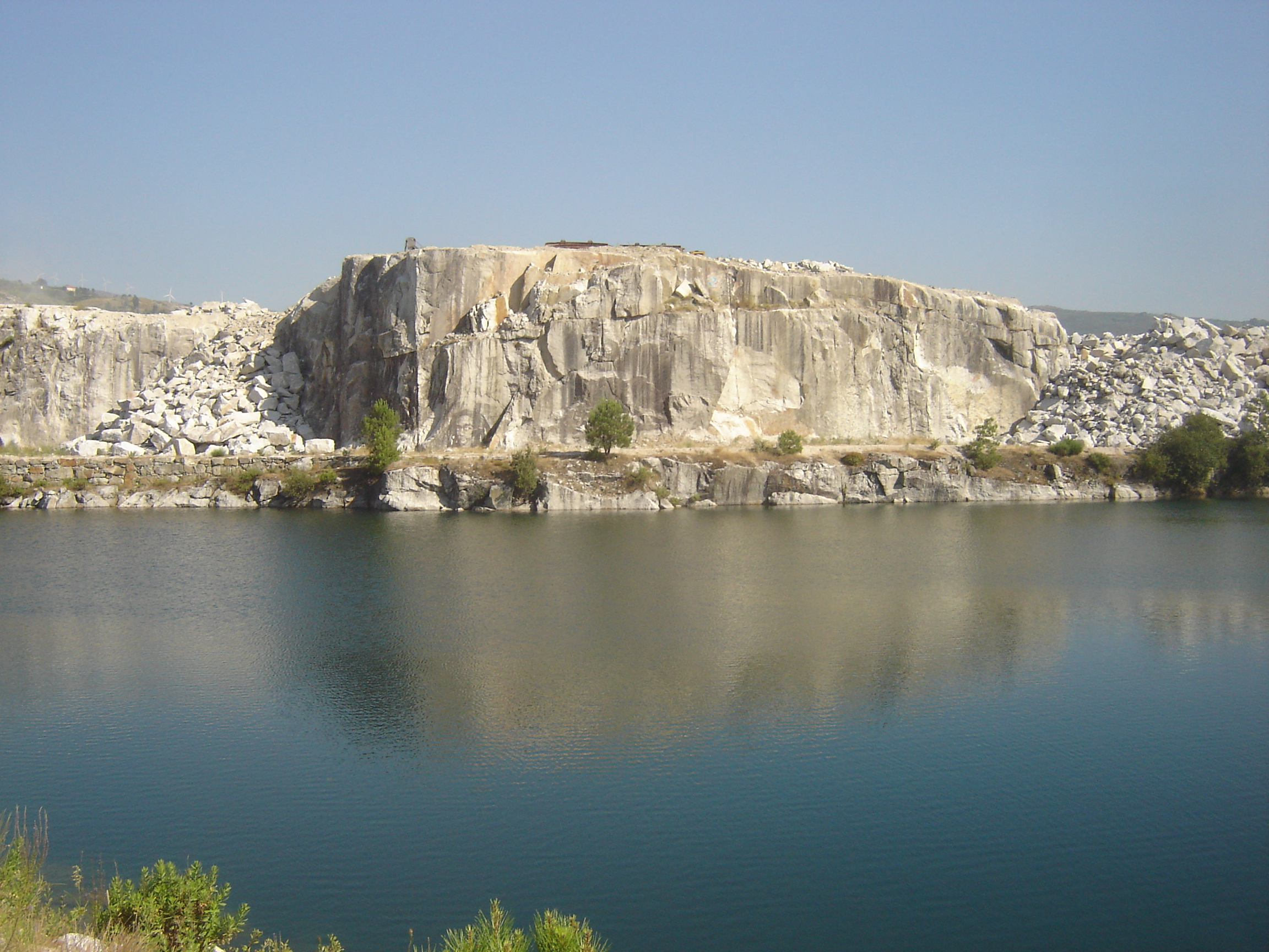 aboadela